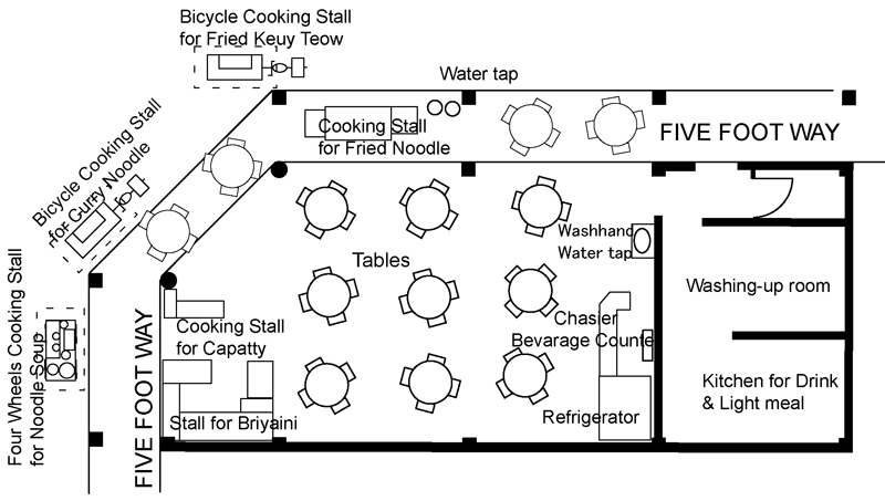 Food & Drink Shops at a street corner, Georgetown, Penang, 1990.